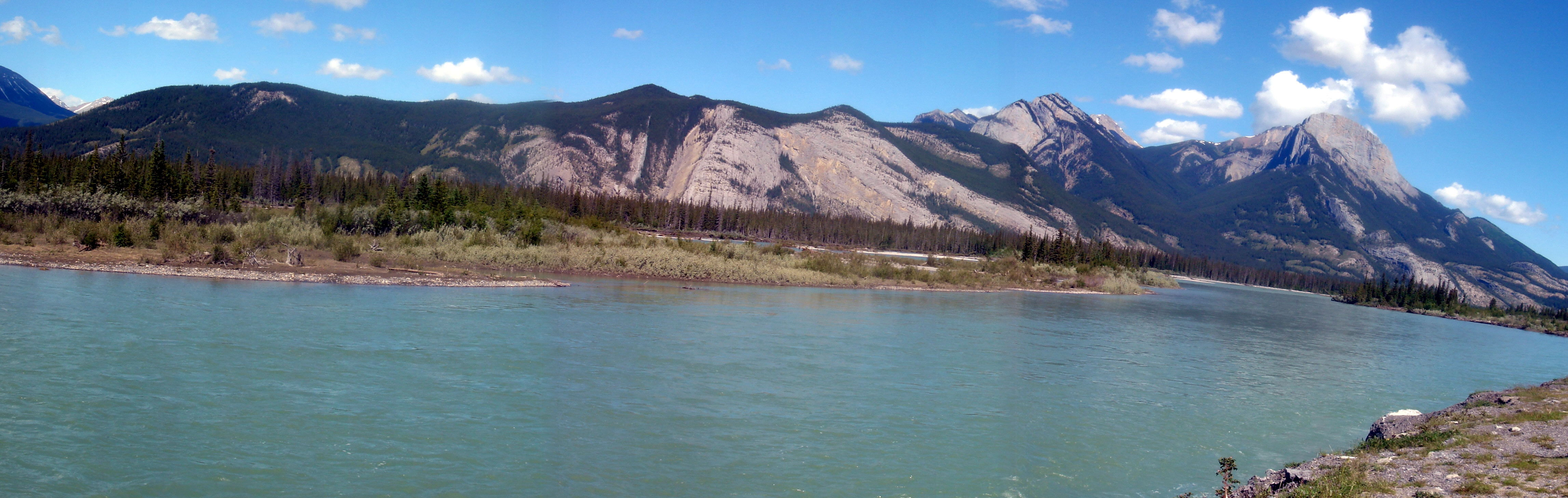 Boshe Range in the Canadian Rockies, Jasper National Park, seen from the Icefield Parkway, Athabasca River in foreground